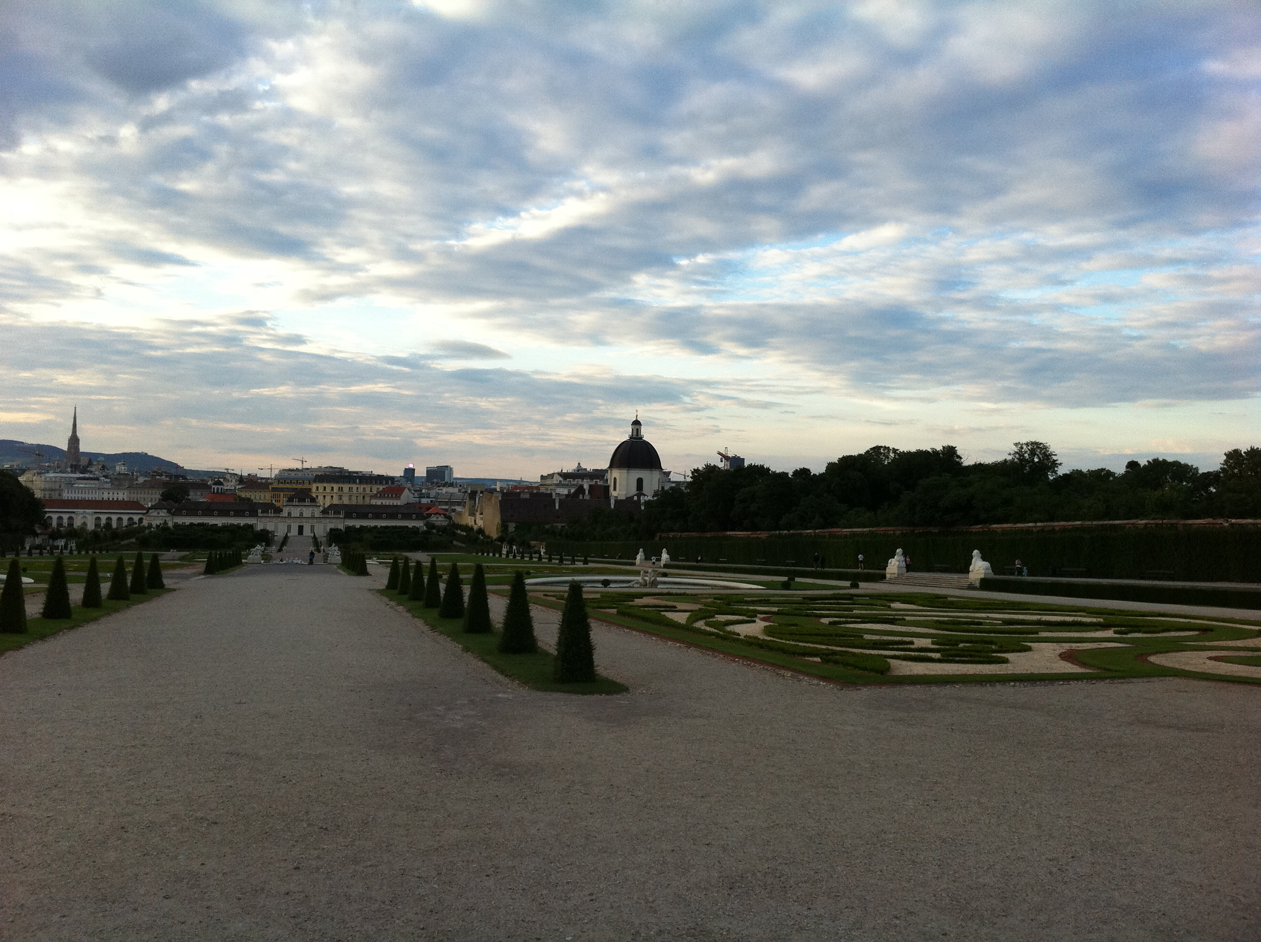 View of Vienna from the Upper Belvedere with the cupola of the Church of the Order of the Visitation of Holy Mary in the centre